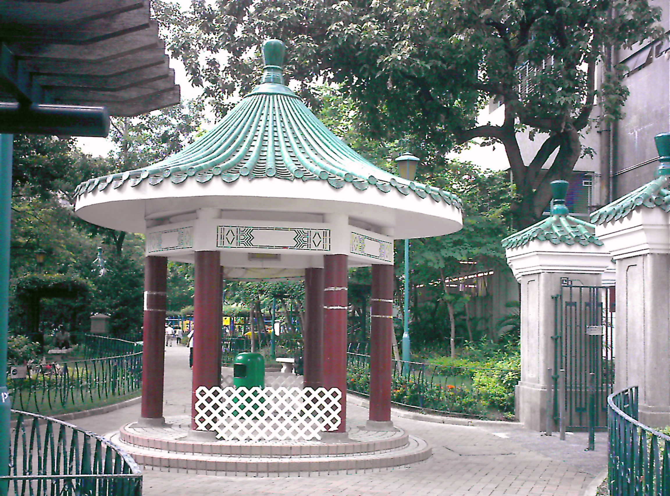 Pavilion at King George V Memorial Park, Kowloon, Hong Kong 中文（香港）: 香港，九龍佐治五世紀念公園裡的涼亭。